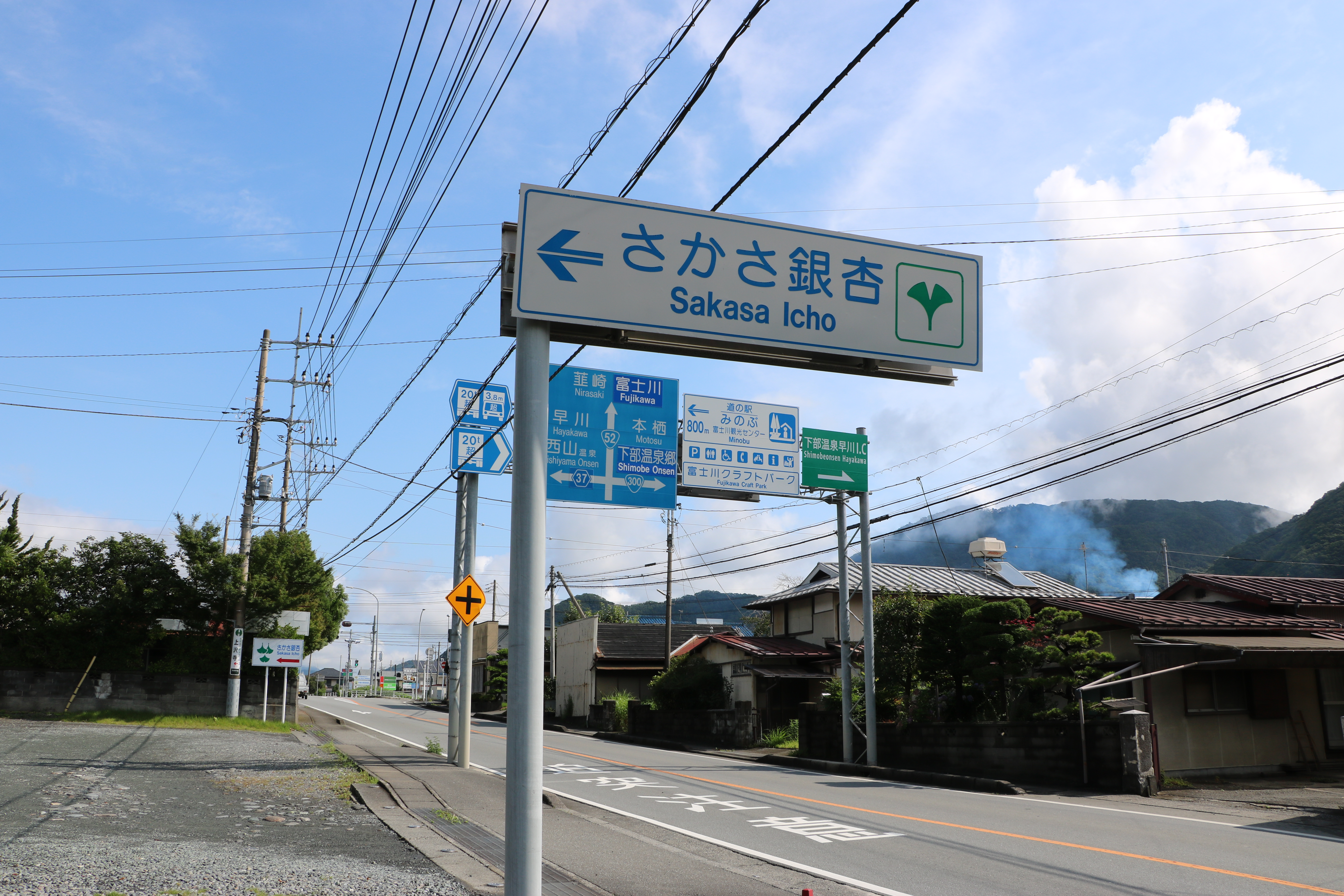 Sakasaicho road signboard. Japan National Route 52